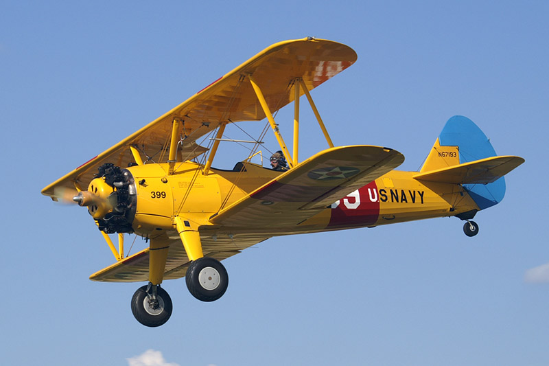 Boeing Stearman N67193